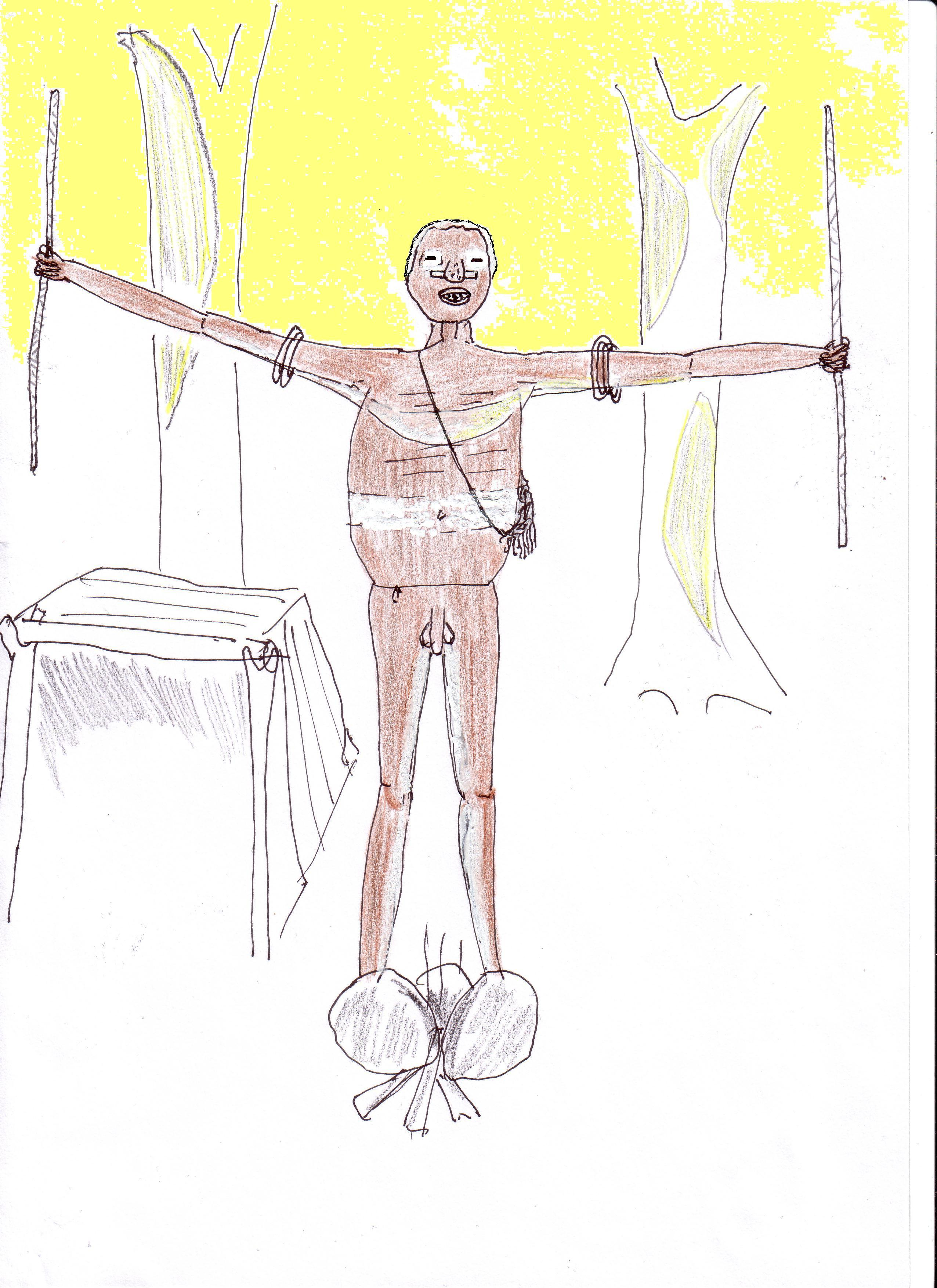 In the North of Arnhem Land, a camp crouching under the gum trees. A Stranger has come near it. So the sorcerer, painted in brown and white, came out of the bush (where he lives alone), and made a lengthy round in search of bad magic, while clapsticks rattled...Then he stands in front of the huts, arms wide spread, and says in a hoarse voice : "All is clear; Ther is no bad magic left around the camp...".